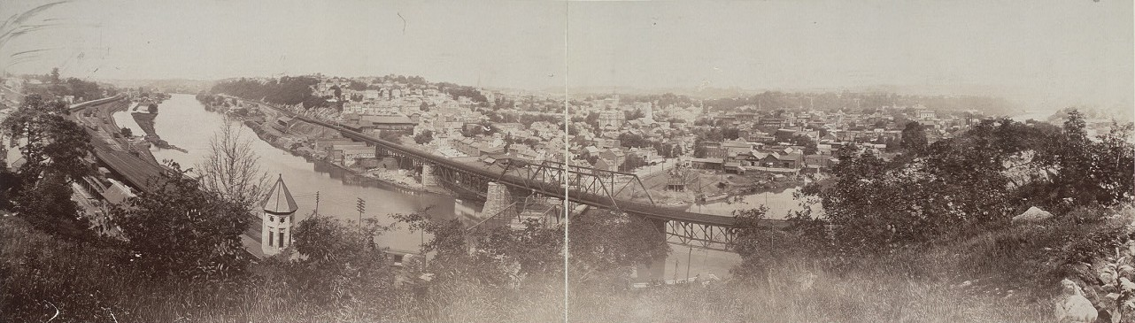 Panorama of Easton, Pennsylvania, taken by William H. Rau circa 1896.